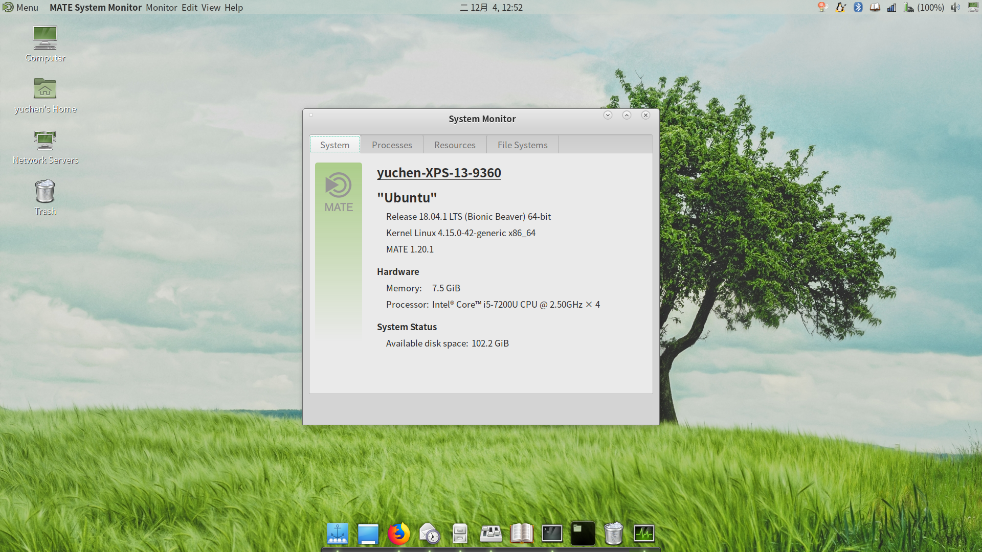 MATE 1.20.1 on Ubuntu Mate 18.04.1, showing System monitor. The desktop background is one of the default backgrounds shipped with Ubuntu MATE 18.04.